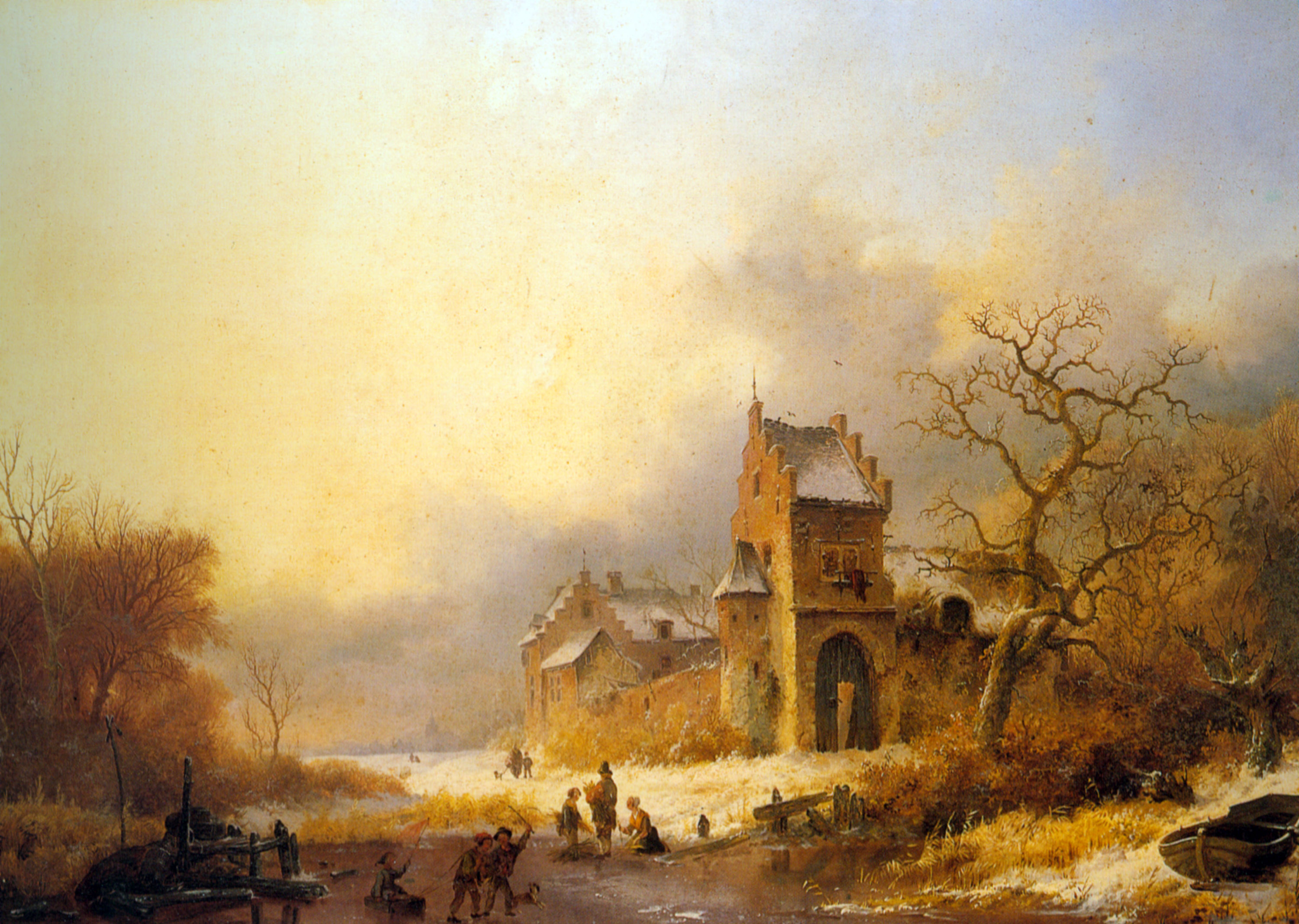 Figures on a frozen river in a winter landscape